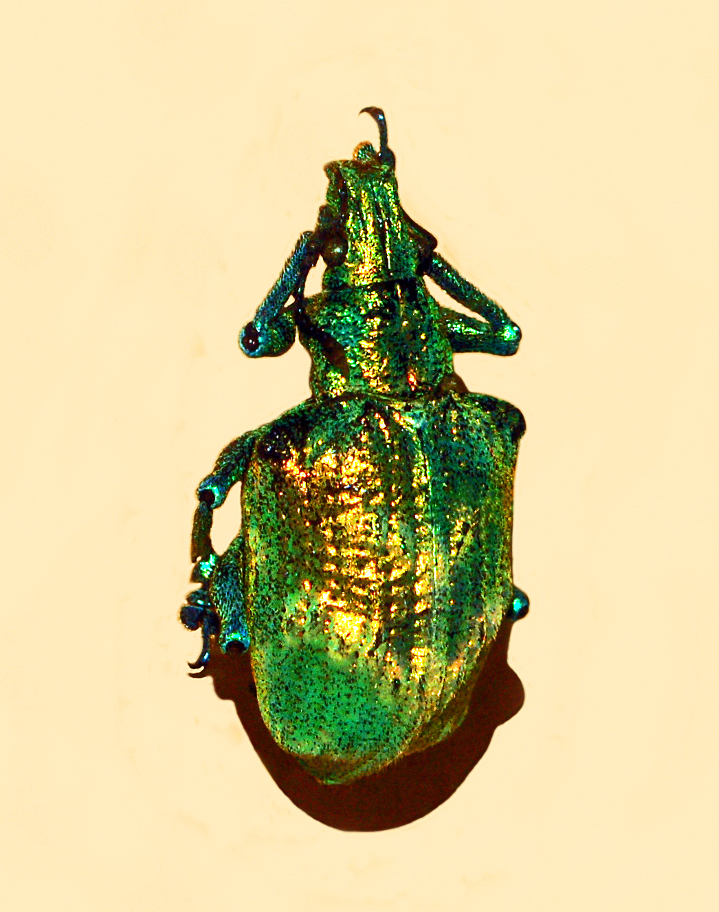 Lamprocyphus augustus from Brazil